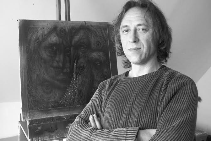 The artist Rinat Baibekov